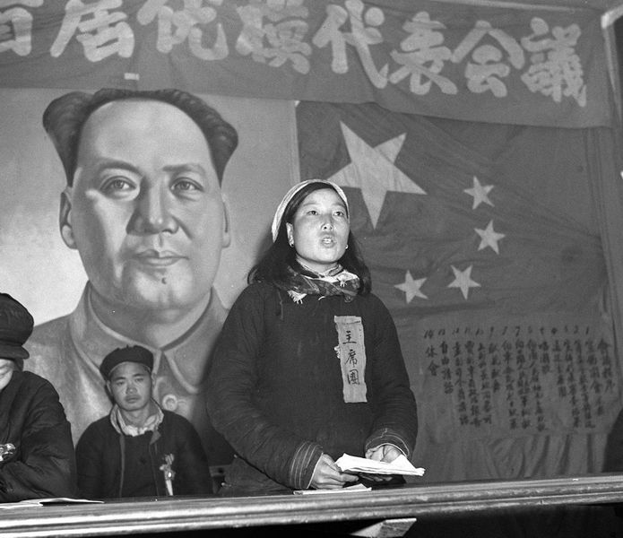 Shen Jilan released the report at the Special Care Model representative meeting in Changzhi in February 1953. 中文（中国大陆）: 1953年2月，申纪兰在长治专区优抚模范代表会议上作报告。